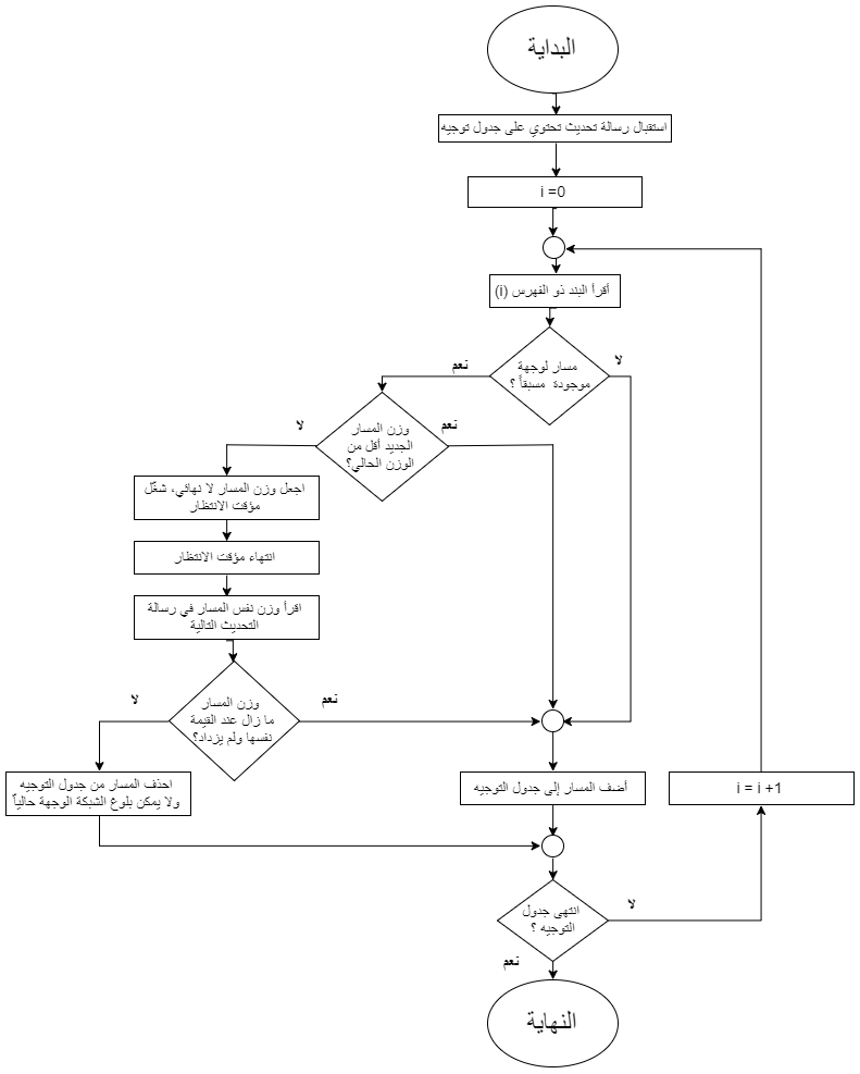 Routing table update algorithm in Routing Information Protocol (RIP).